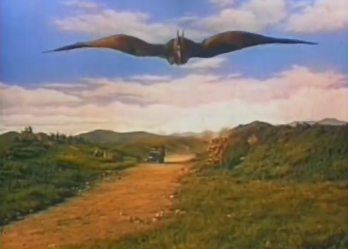 Scene from Rodan.